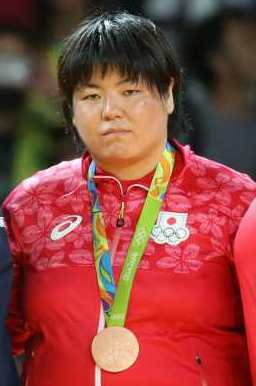 Kanae Yamabe is a female Japanese judoka. Bronze medal in Rio 2016